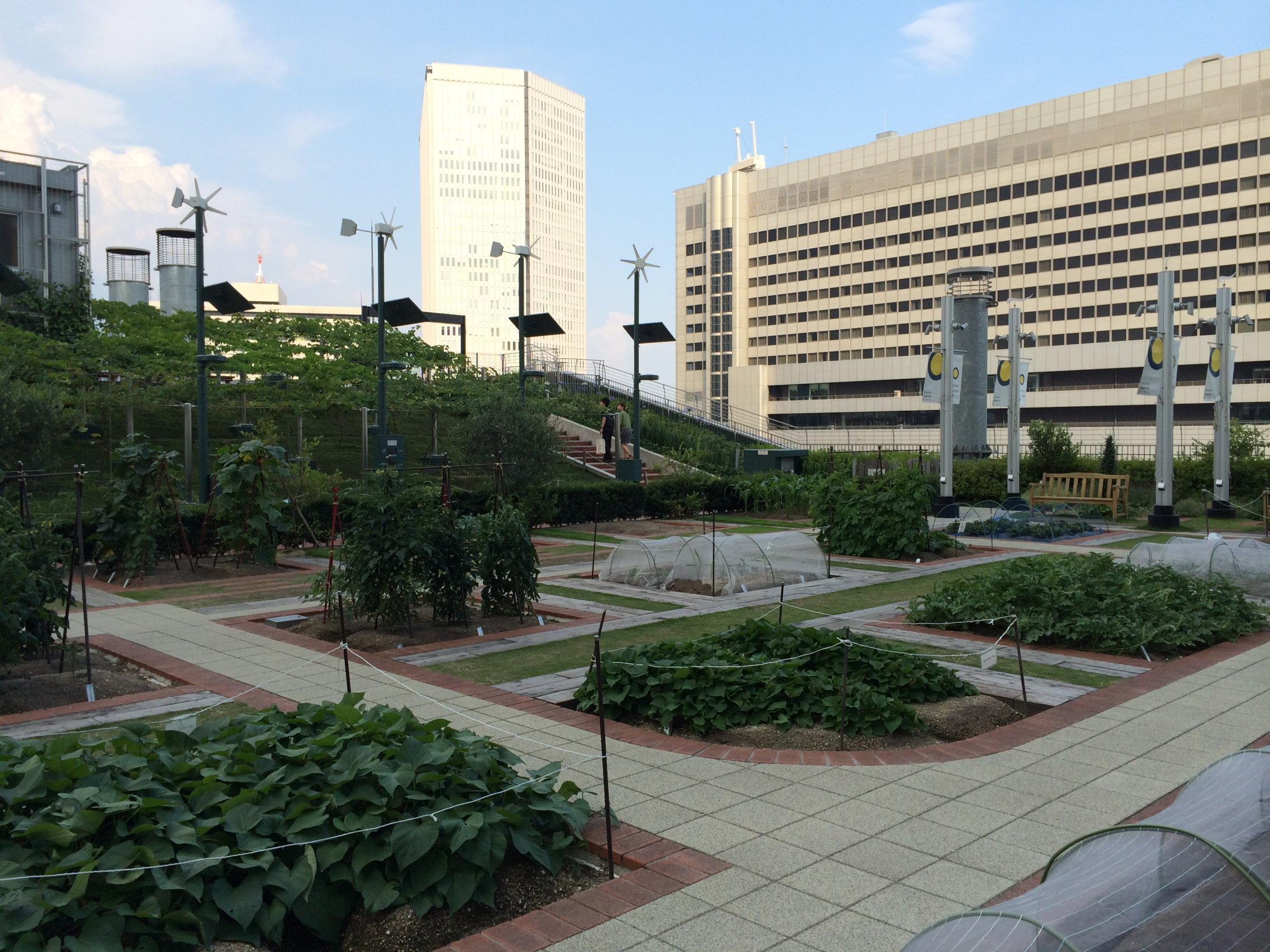 Osaka Station City Roof Urban Farm